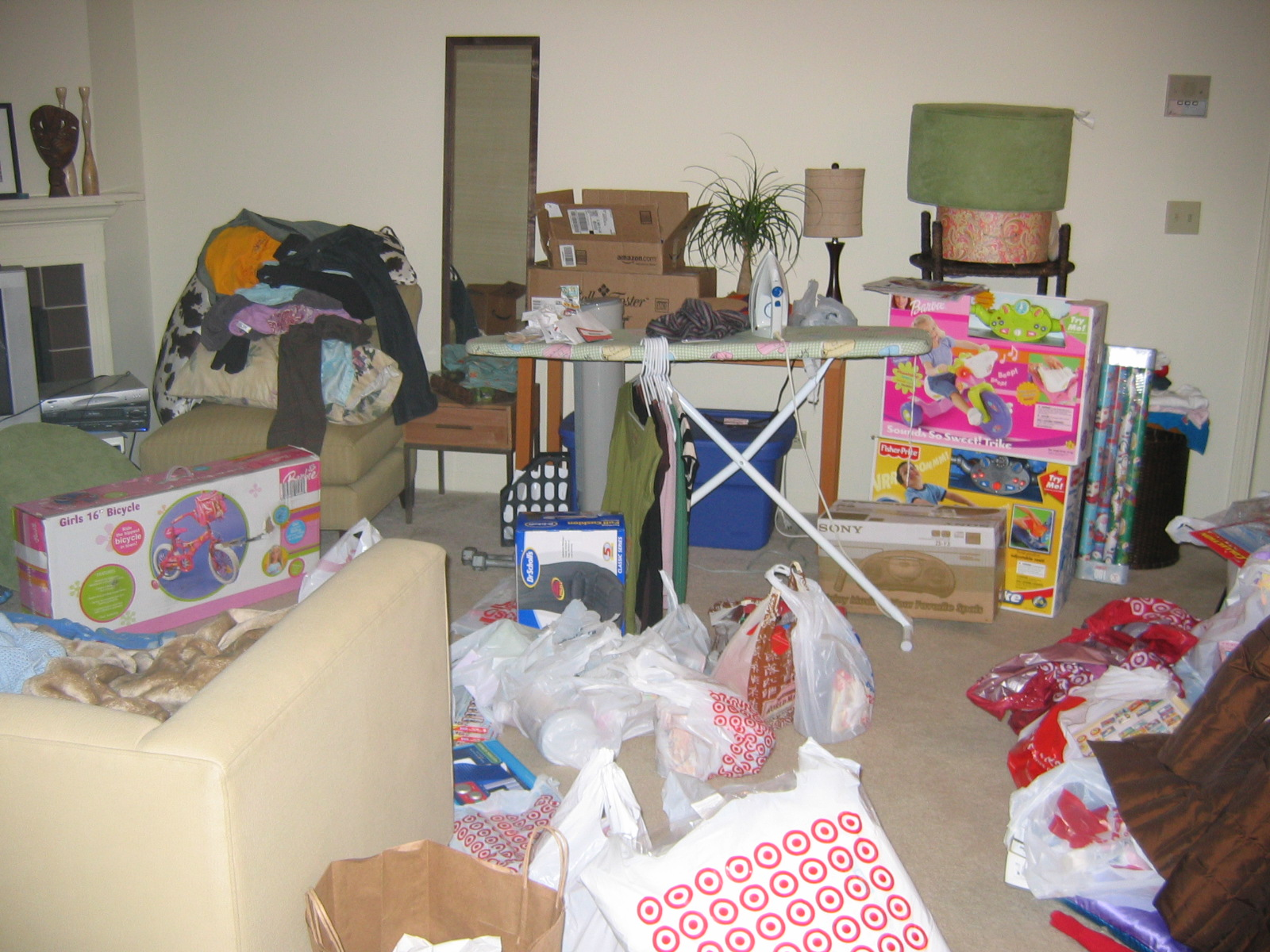 ... and this is just the living room. i need to wrap all this stuff now in addition to getting all my laundry ironed. Dear Santa, I've been a very good girl this year. Please send me a houseboy to tend to all my chores.